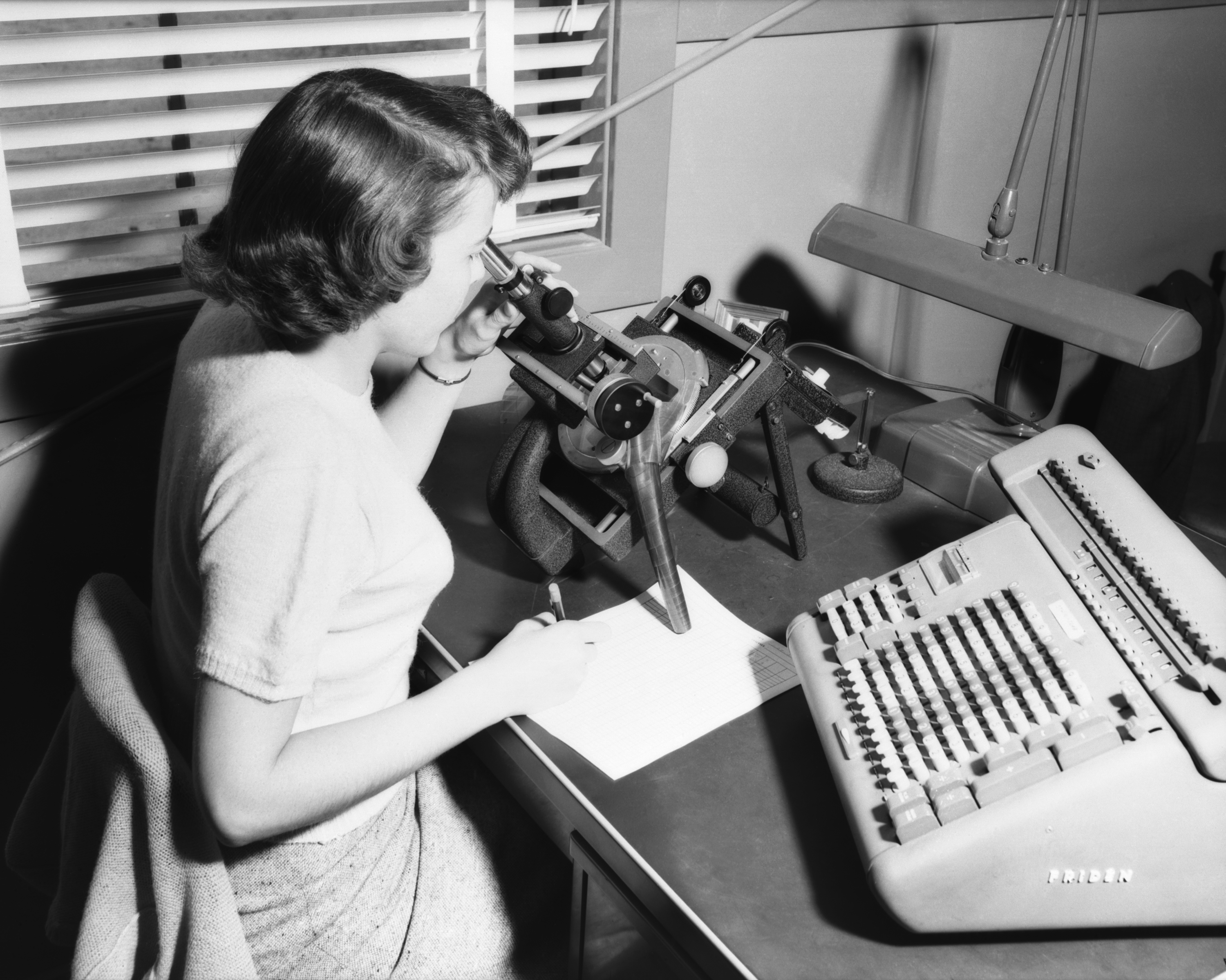 X-4 program with what Langley engineers euphemistically called "Female Computer" support personnel.